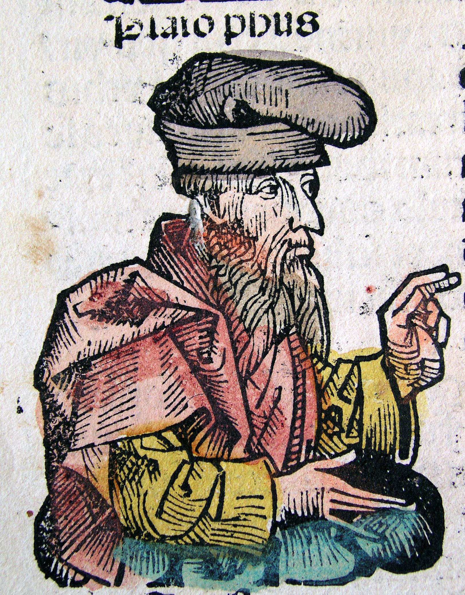 Woodcut from the Nuremberg Chronicle